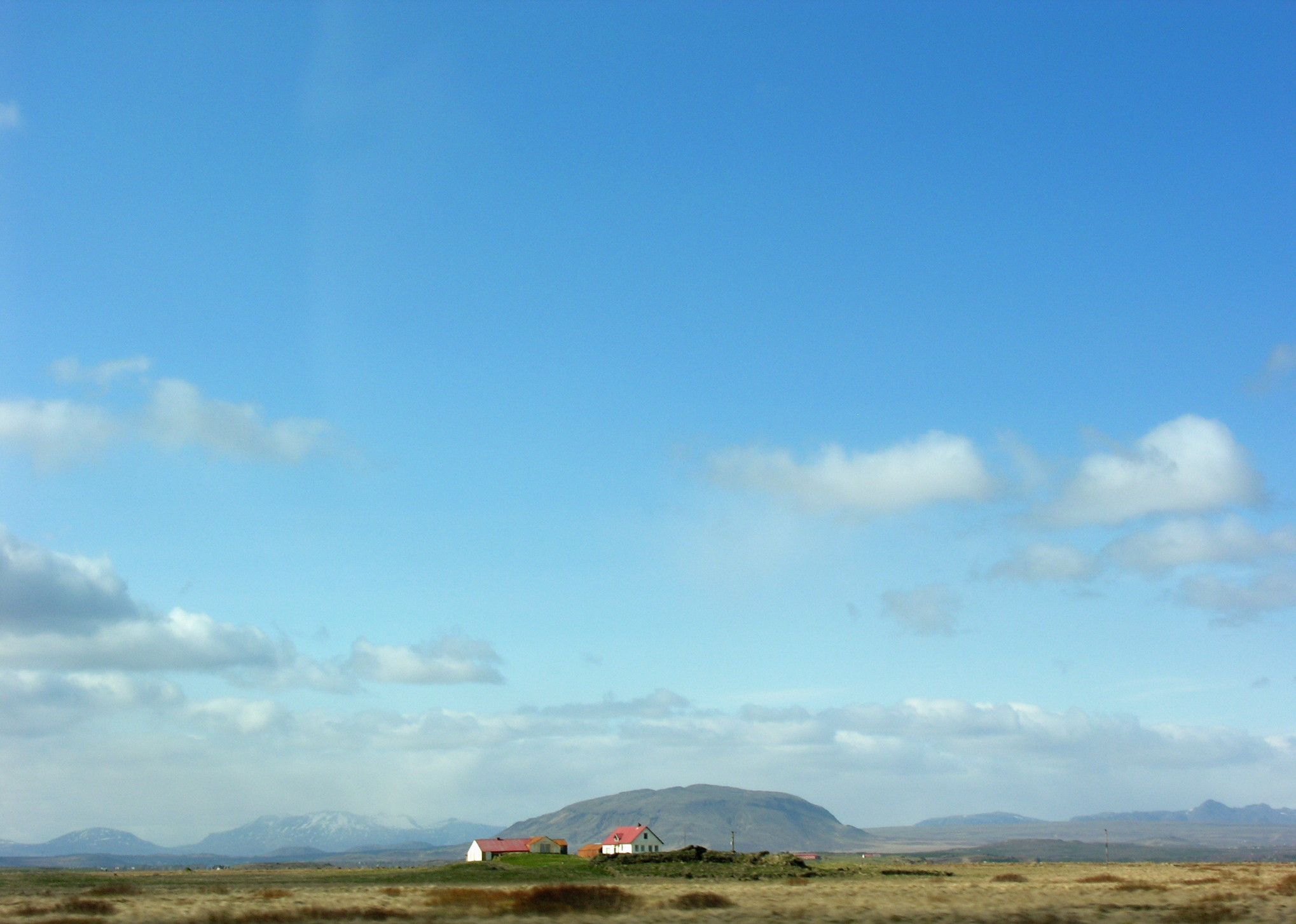 Iceland, Farm in Southern Iceland